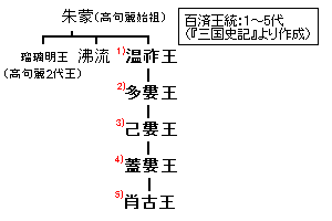 the geneology of Baekje( 1st King ~ 5th King) / 百済王系図(初代～5代)